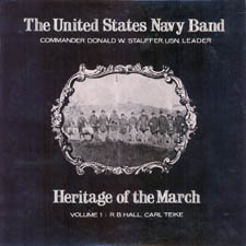 The first album in the Heritage of the March series performed by the United States Navy Band and distributed by Robert Hoe